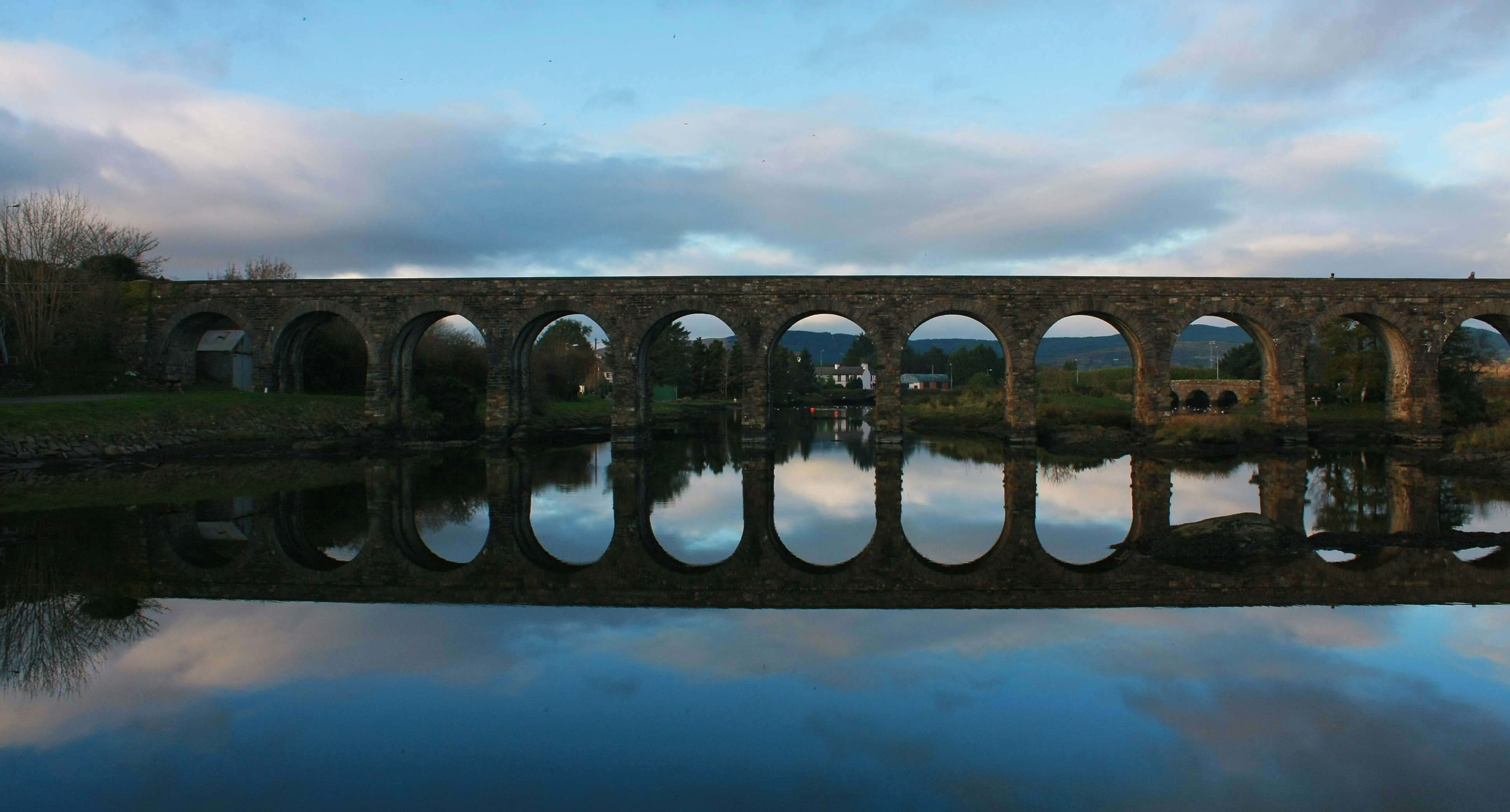 Ballydehob, West Cork, Ireland. Disused railway bridge. Facing Ballydehob.